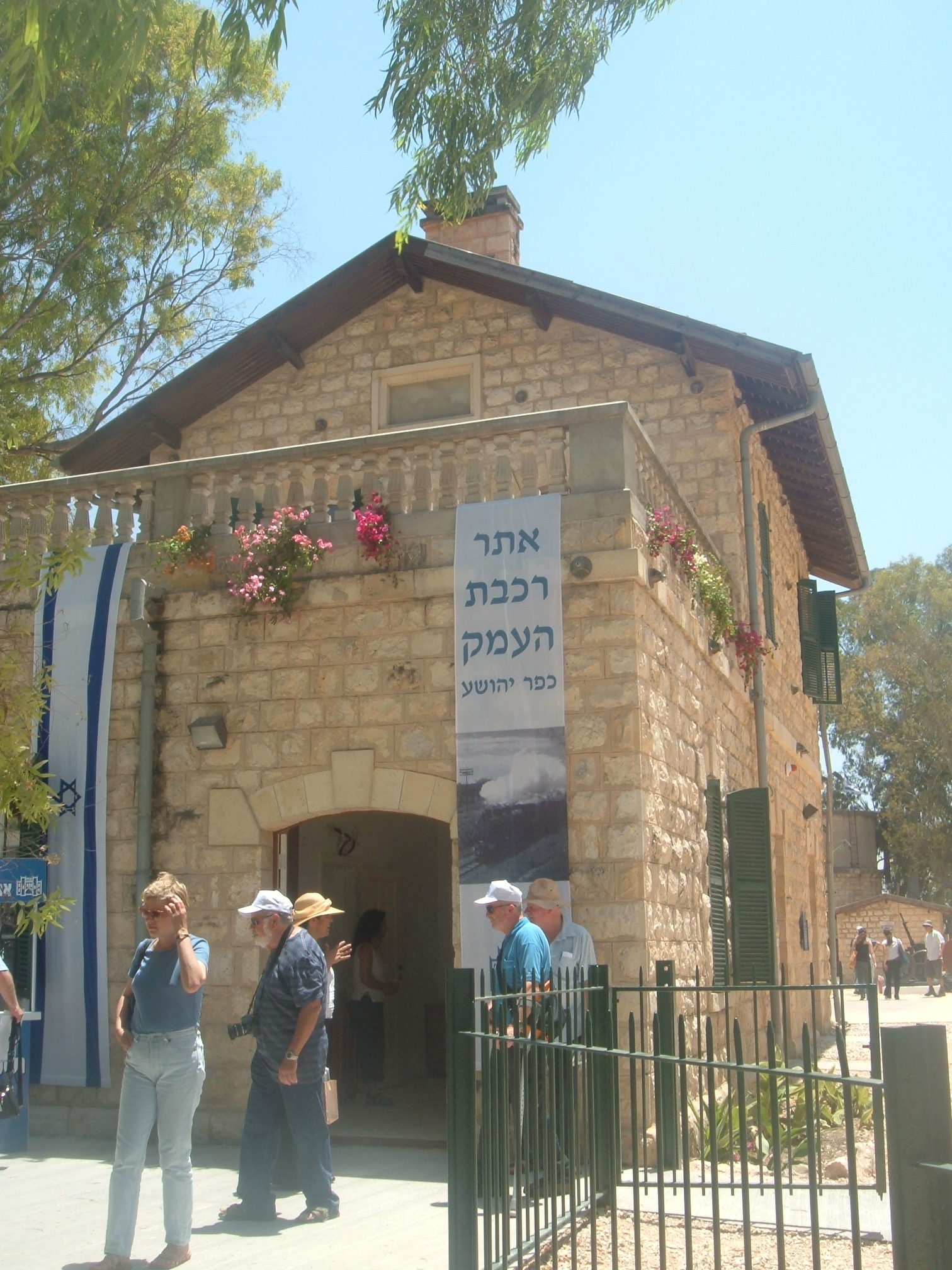 entrance to railway museum in Kfar Yehoshua, Israel הכניסה למוזיאון רכבת העמק בכפר יהושוע צולם ביום פתיחת המוזיאון